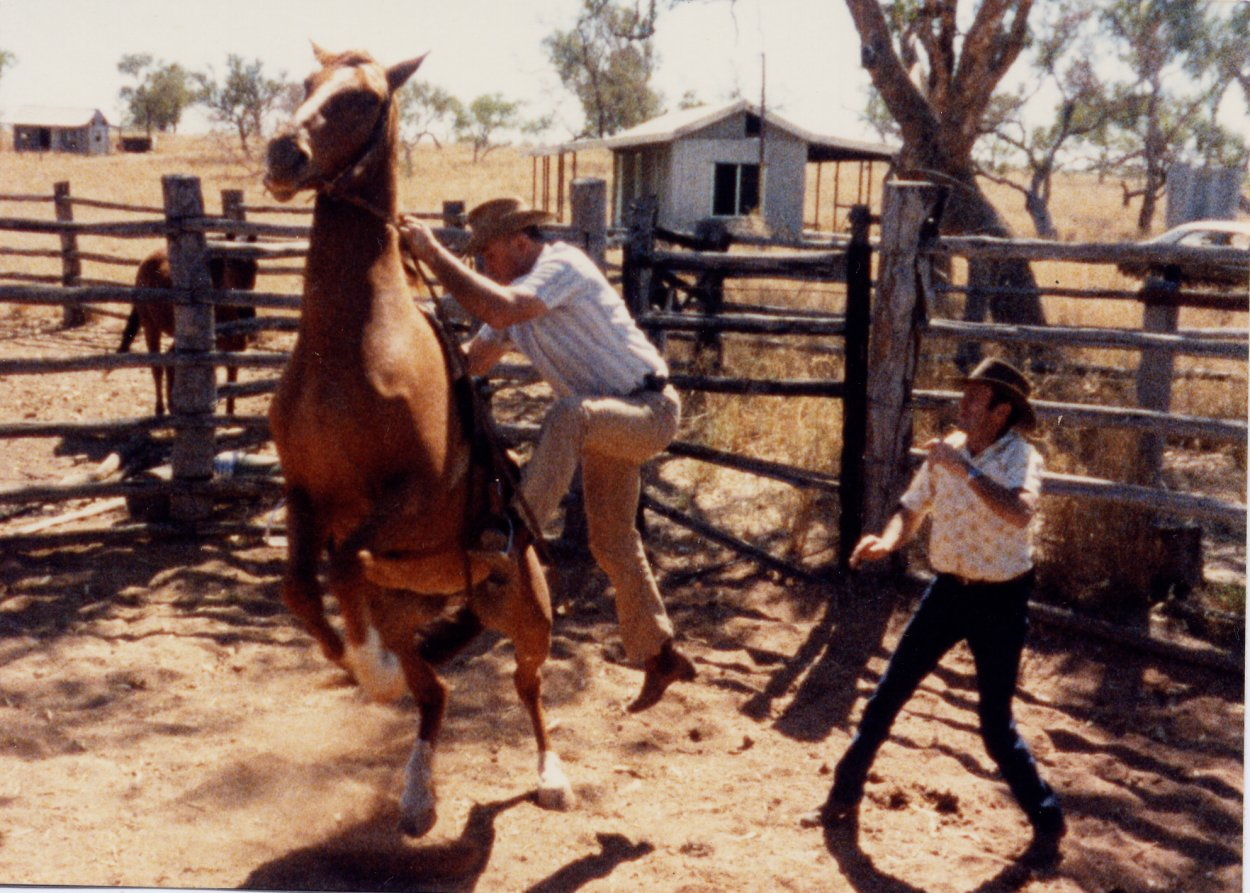 Horses in the outback are not noted for their docility, as depicted here during mounting at Thorntonia, Camoweal, QLD.